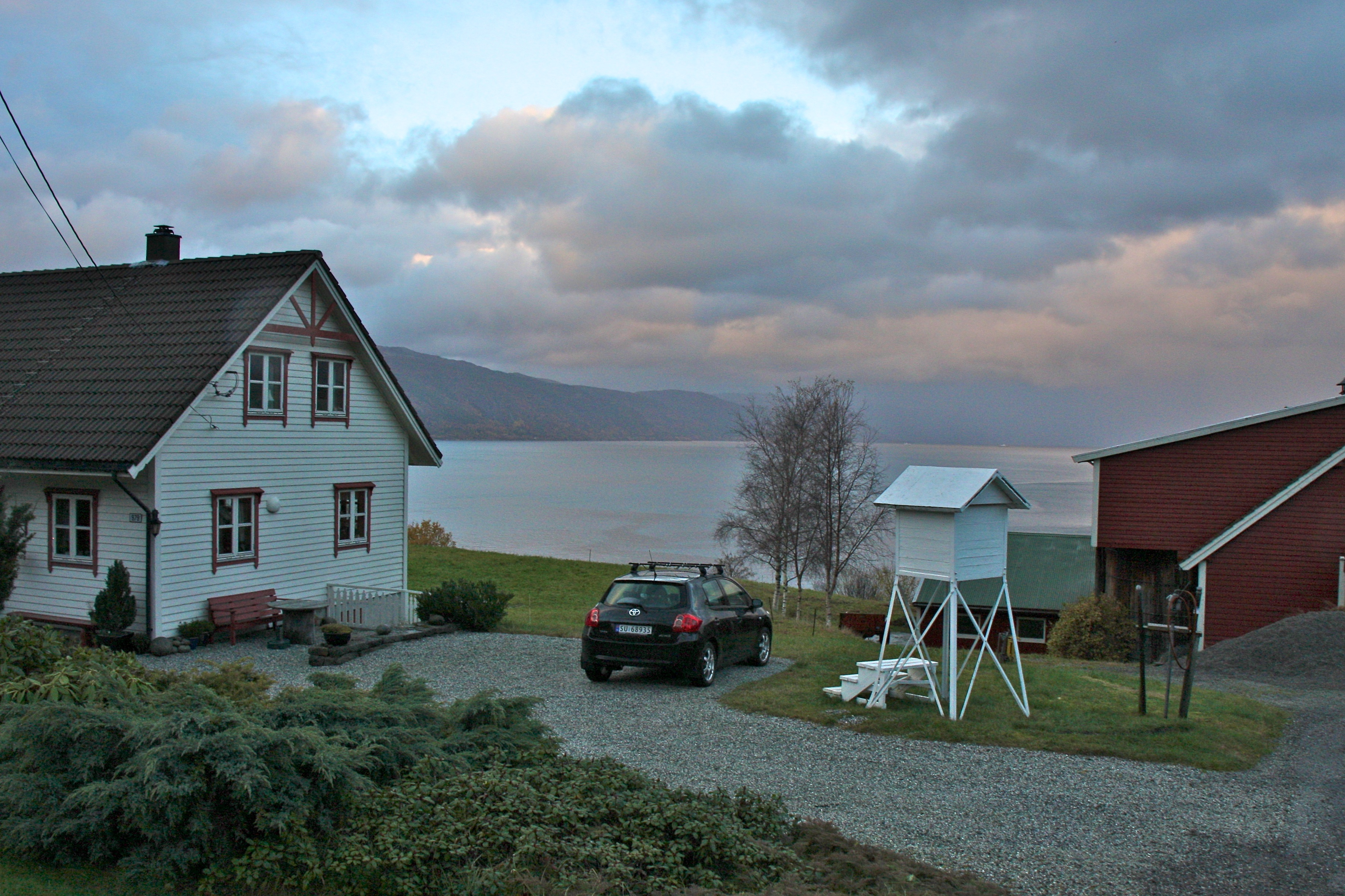 Takle in Gulen municipality, Norway.